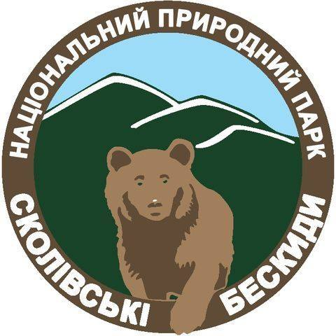 Сколівські Бескиди (національний природний парк)